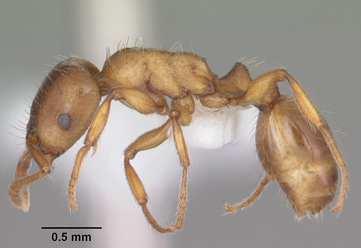 Profile view of ant Strongylognathus caeciliae specimen mb619-2.